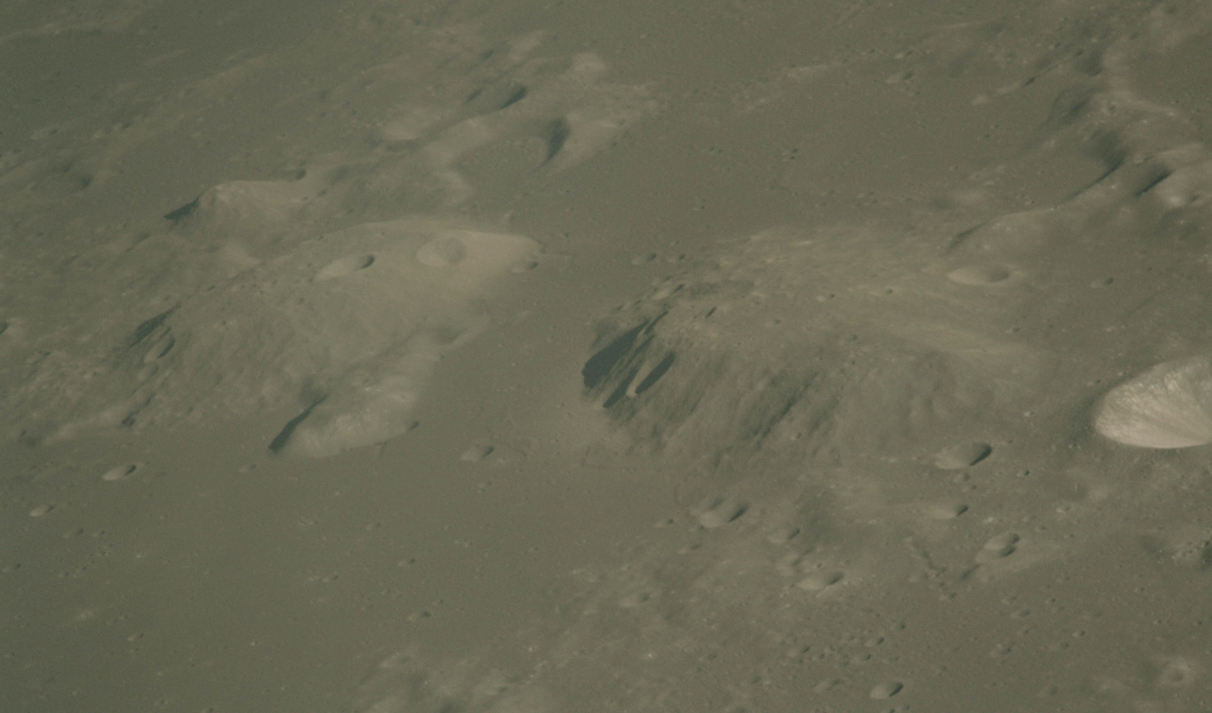 Oblique view facing north of Mons Gruithuisen Gamma (left) and Delta (right), from Apollo 15.